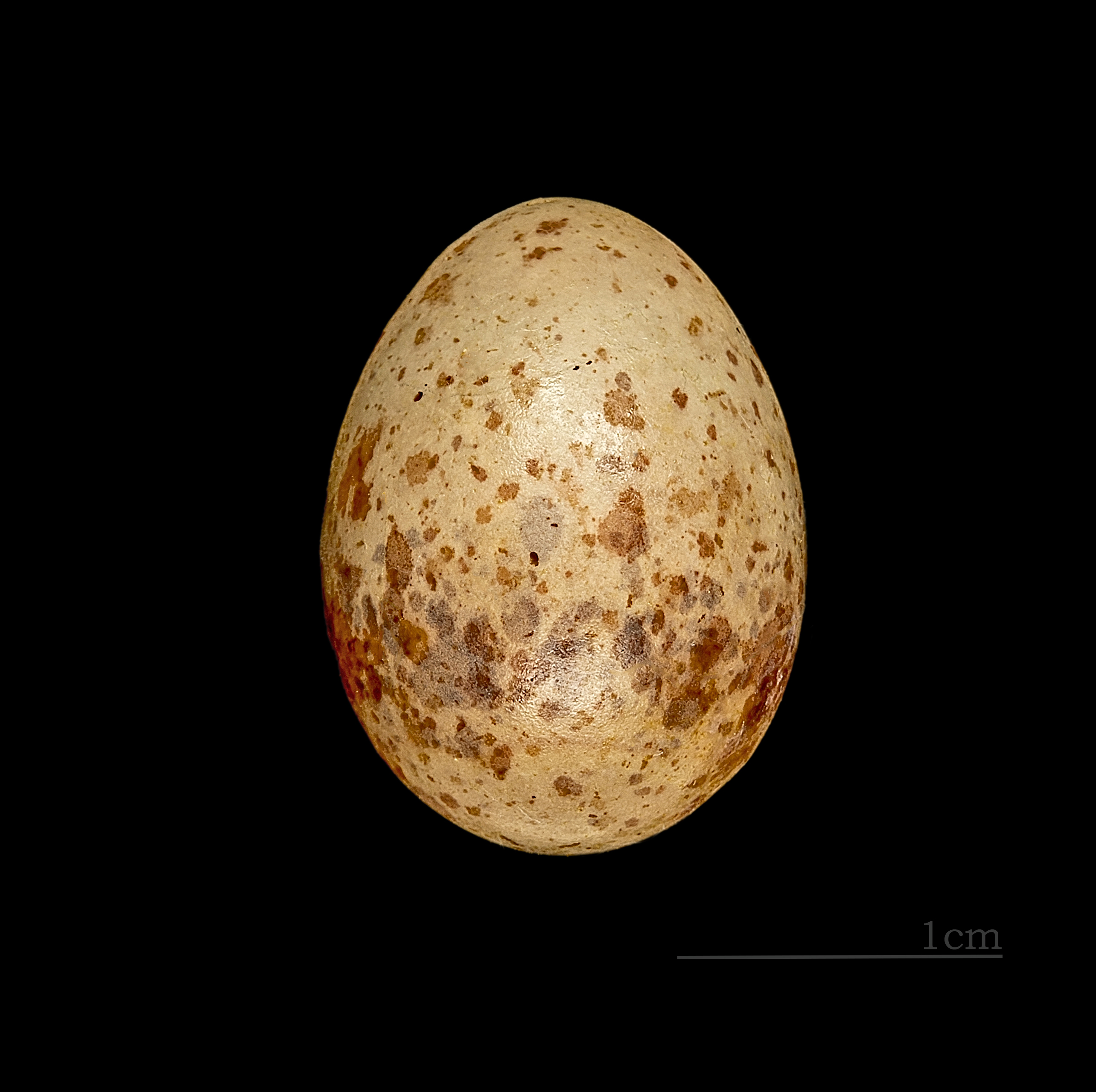 Egg of Long-tailed Rosefinch. Collection of Jacques Perrin de Brichambaut.